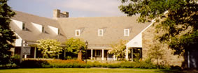 From Franklin D. Roosevelt Presidential Library and Museum